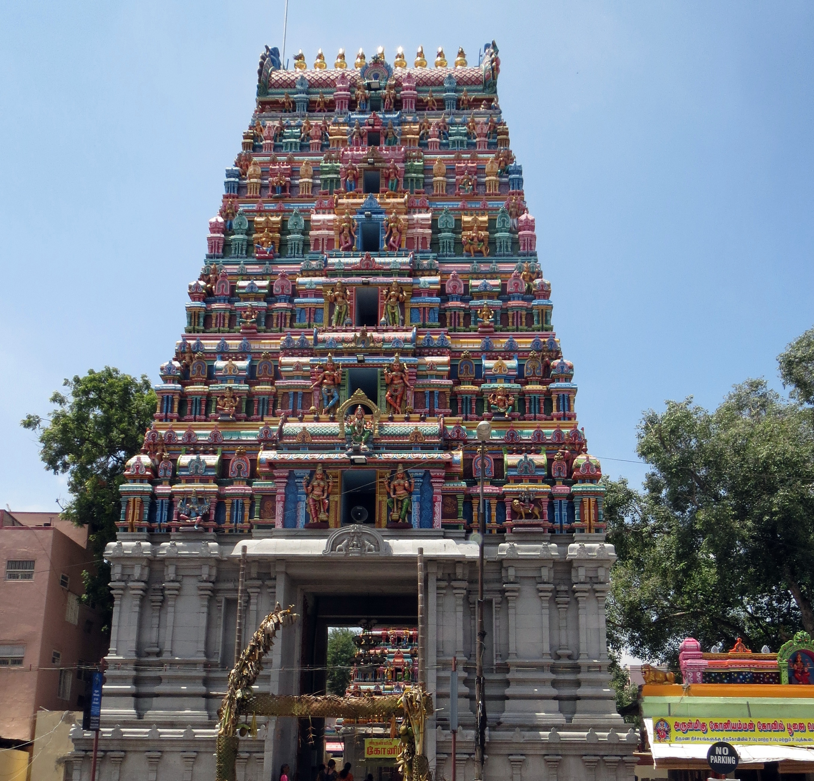 Rajagopuram of Koniamman temple in Coimbatore